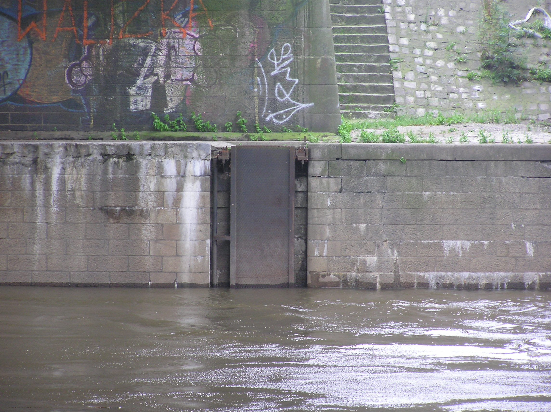 Wrocław, Zacisze Weir